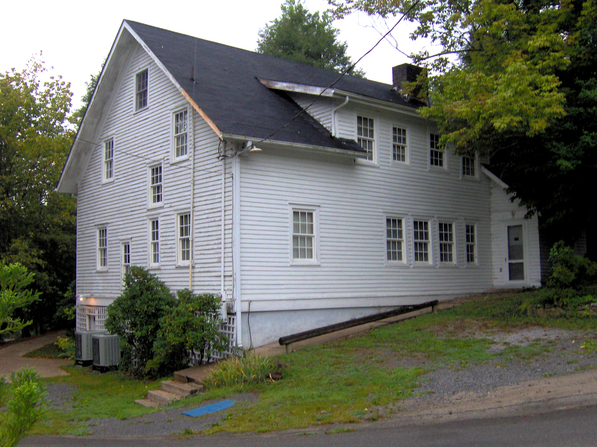 The Teacher's Cottage, or Helmick House, on the Arrowmont School of Arts and Crafts campus in the U.S. city of Gatlinburg, Tennessee.